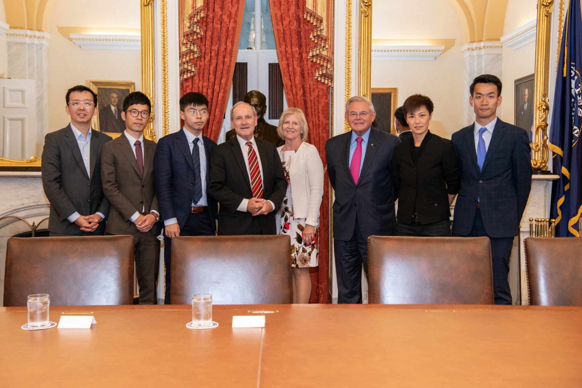 I was inspired by my meeting yesterday with Joshua Wong and others pushing for Hong Kong’s autonomy and democracy. The Senate Foreign Relations Committee will mark up Hong Kong Human Rights and Democracy Act next week, on September 25